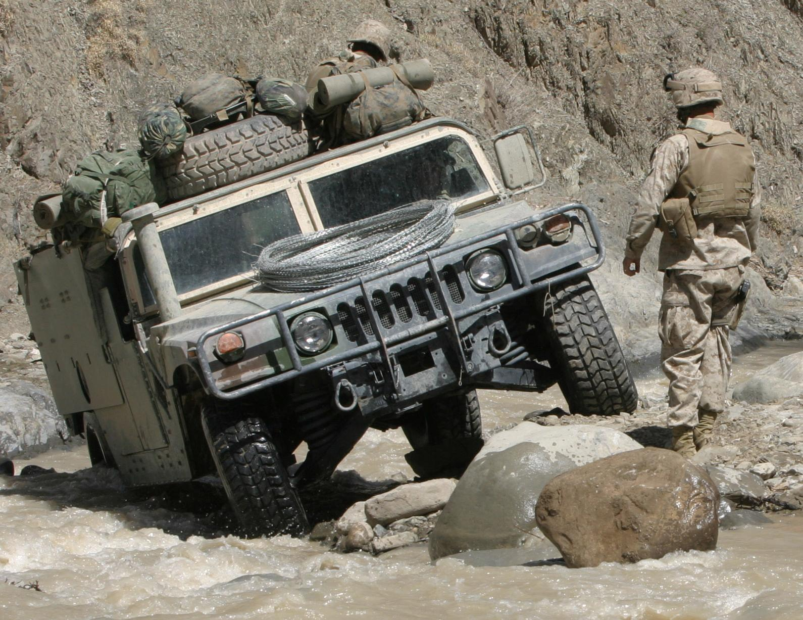 A U.S. Marine guides the driver of a Humvee through a river as they negotiate through the rugged terrain of Khowst Province, Afghanistan, on March 28, 2005. The Marines of Kilo Company, 3rd Battalion, 3rd Marine Regiment, are conducting security and stabilization operations in the Khowst Province in support of Operation Enduring Freedom. (Original caption)